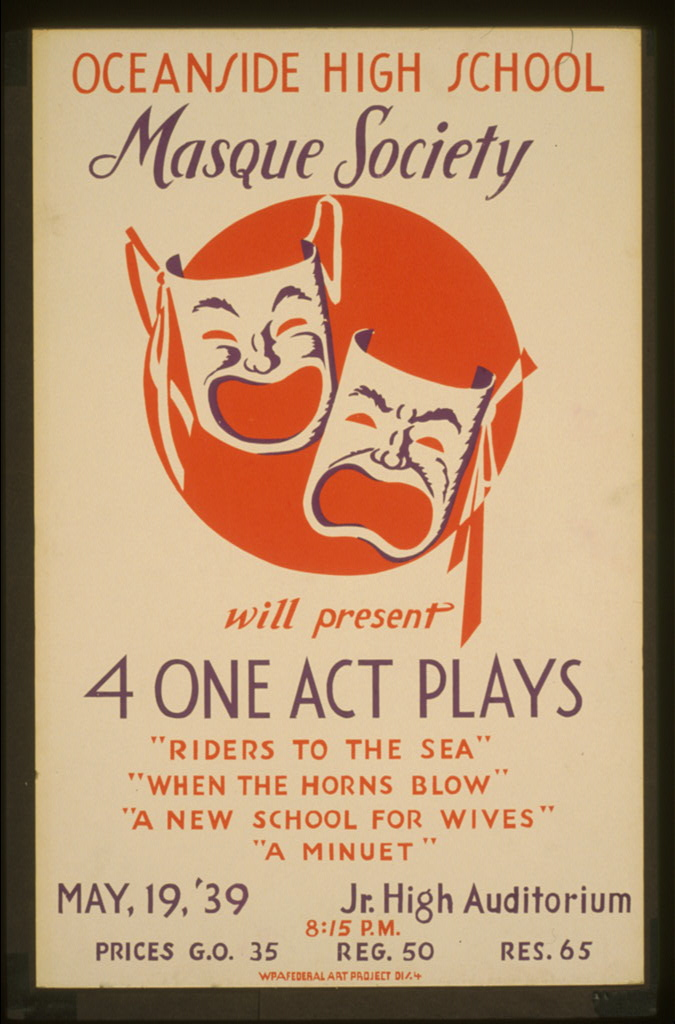 TITLE: Oceanside High School Masque Society will present 4 one act plays "Riders to the sea," "When the horns blow," "A new school for wives," and "A minuet" CALL NUMBER: POS - WPA - NY .01 .O27, no. 1 (B size) [P&P] REPRODUCTION NUMBER: LC-USZC2-5335 (color film copy slide) SUMMARY: Poster for Oceanside High School presentation of four one act plays at the Jr. High School auditorium, showing the masks of tragedy and comedy. MEDIUM: 1 print on board (poster) : silkscreen, color. CREATED/PUBLISHED: [New York] : WPA Federal Art Project, Dis. 4, [19]39. NOTES: Date stamped on verso: Jul 18 1939. Work Projects Administration Poster Collection (Library of Congress). SUBJECTS: Theatrical productions--New York (State)--Oceanside--1930-1940. FORMAT: Theatrical posters 1930-1940. Screen prints Color 1930-1940. REPOSITORY: Library of Congress Prints and Photographs Division Washington, D.C. 20540 USA DIGITAL ID: (color film copy slide) cph 3f05335 CARD #: 98514286 This image is available from the United States Library of Congress's Prints and Photographs division under the digital ID cph.3f05335.This tag does not indicate the copyright status of the attached work. A normal copyright tag is still required. See Commons:Licensing for more information.